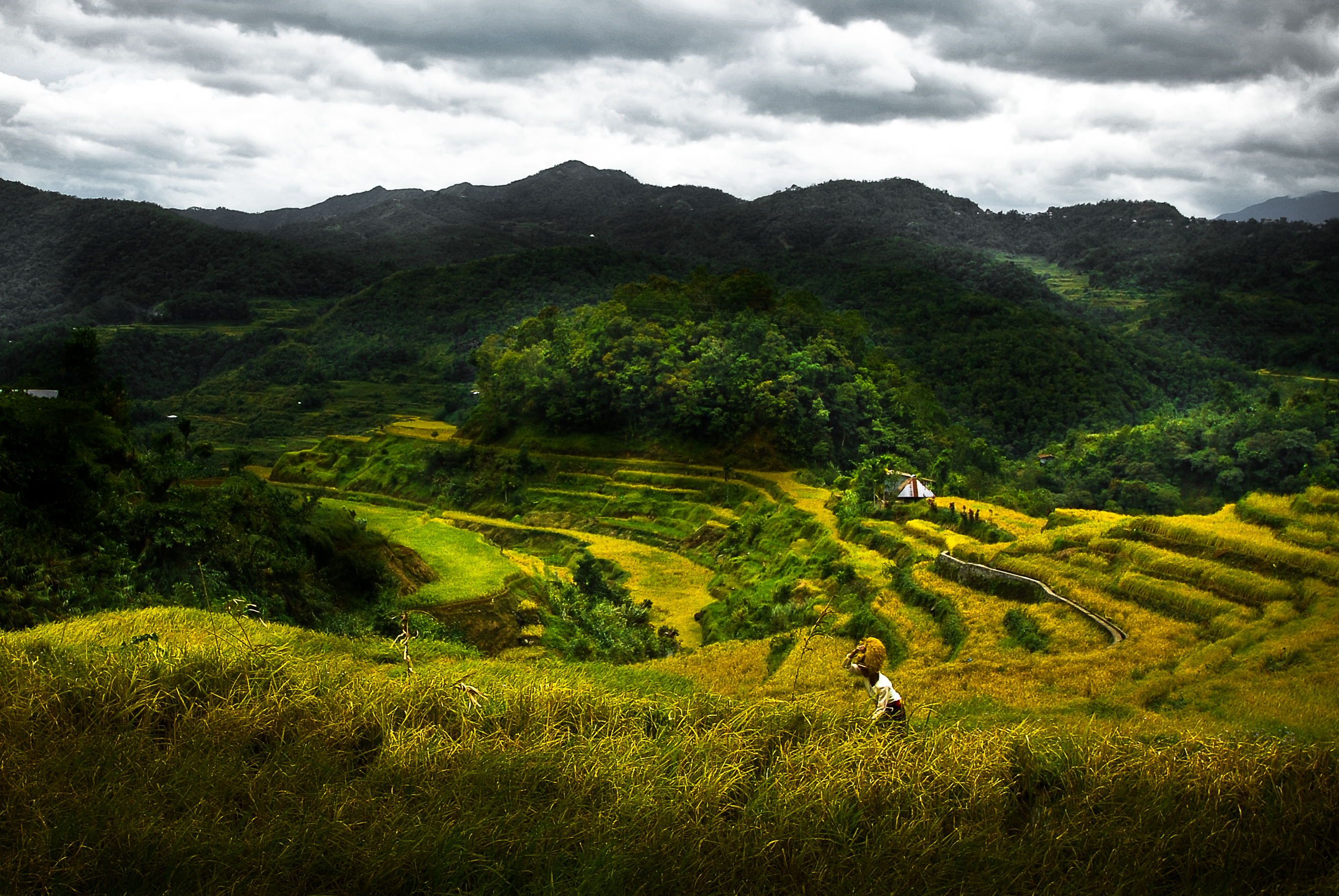 An Igorot woman started to harvest rice at Banaue Rice Terraces, Ifugao.